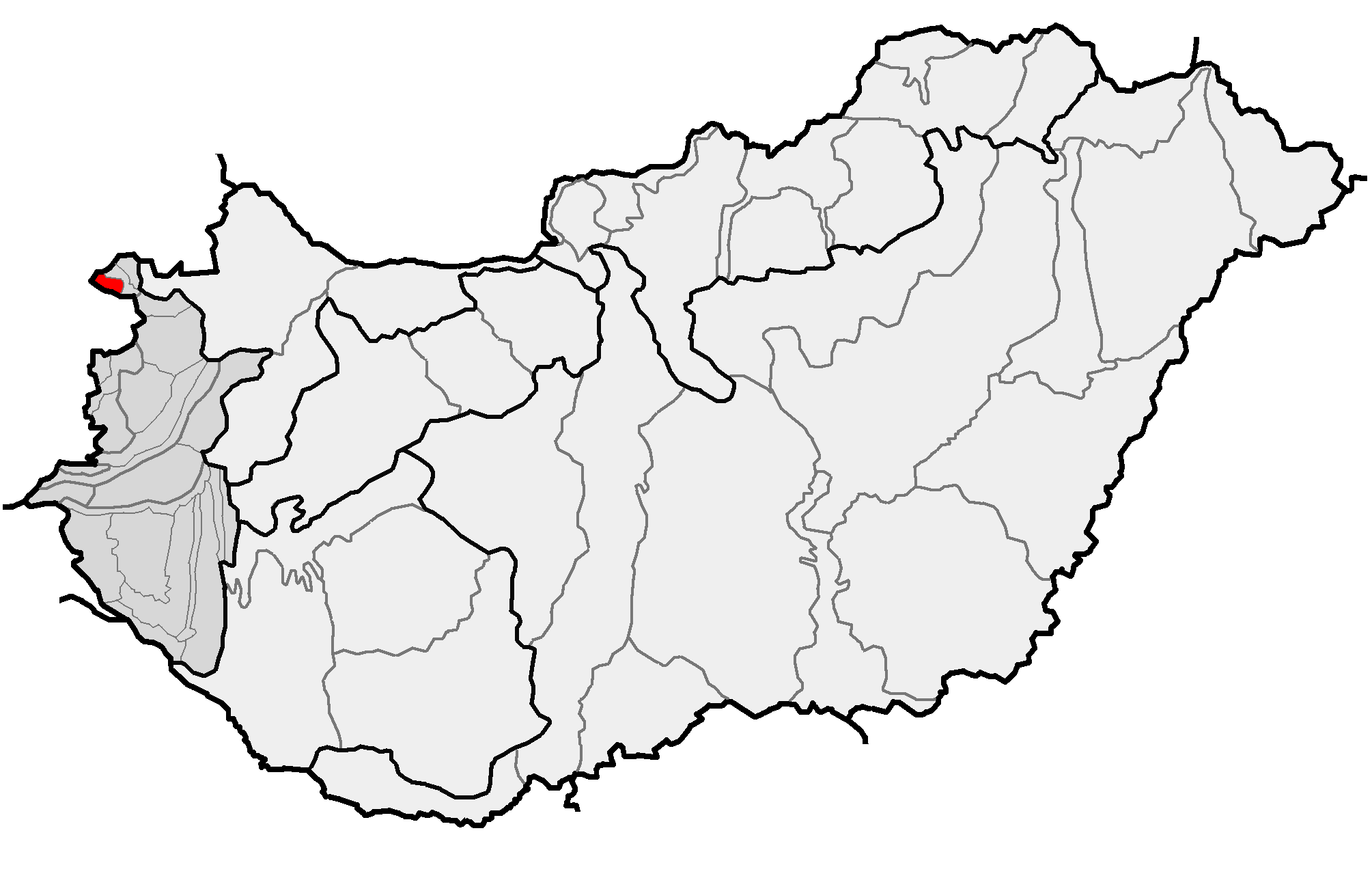 Location of geographical microregion of Soproni-hegység (red) and macroregion of Nyugat-magyarországi peremvidék (gray) within subdivisions of Hungary.